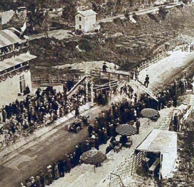 Aerial from the Targa Florio race on Sicilia in Italy on 3 May 1925. This picture is from the french magazine Le Miroir des sports, 13 May 1925